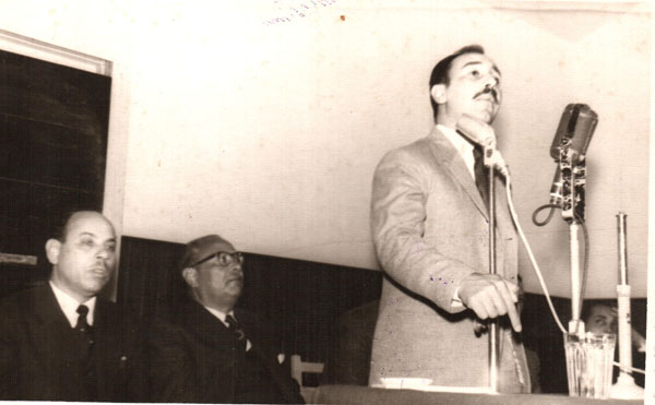 Nasser Al-Saeed in Cairo 1956